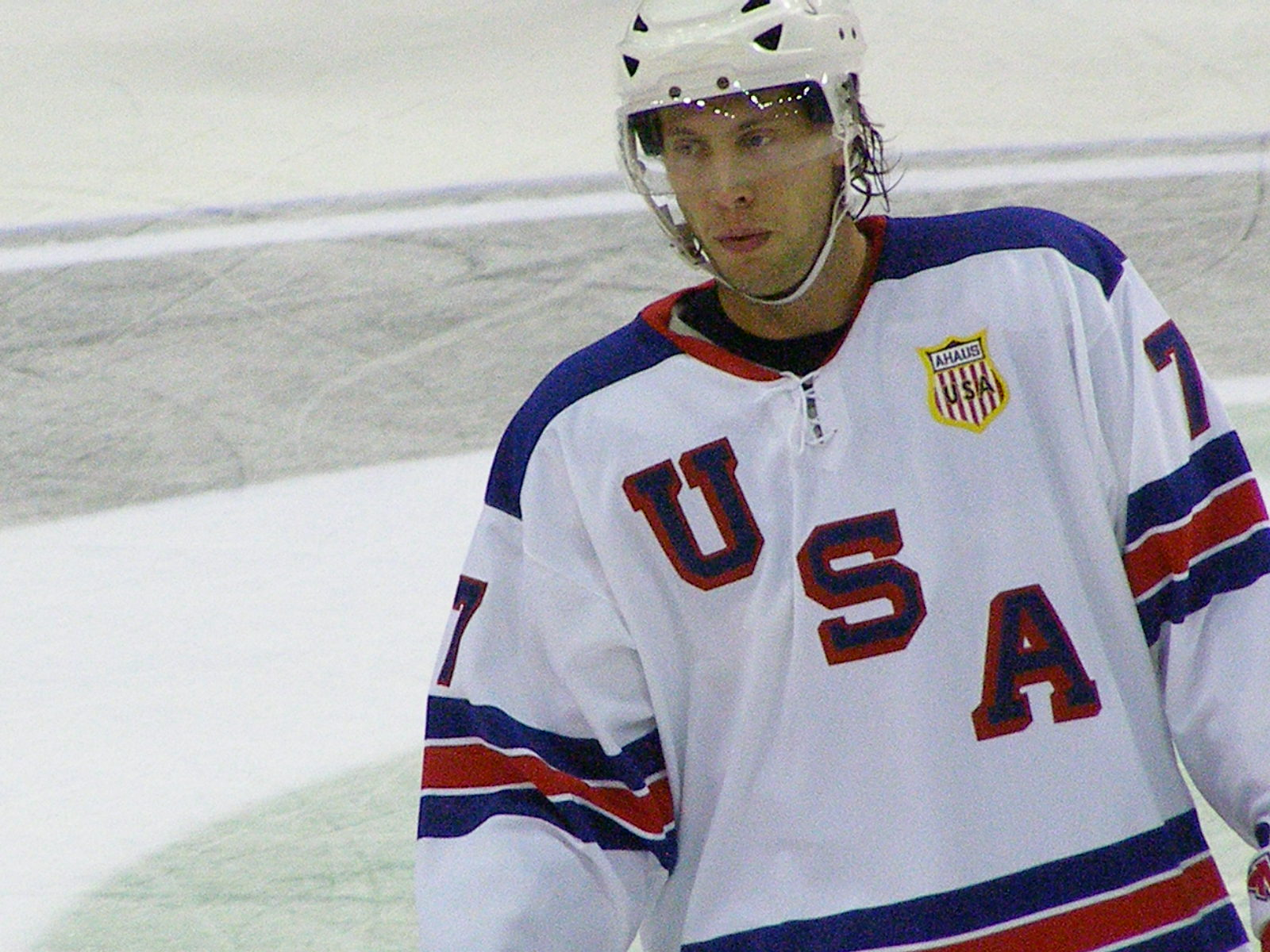 United States defenseman Tom Gilbert plays against Latvia during the 2008 IIHF World Championship